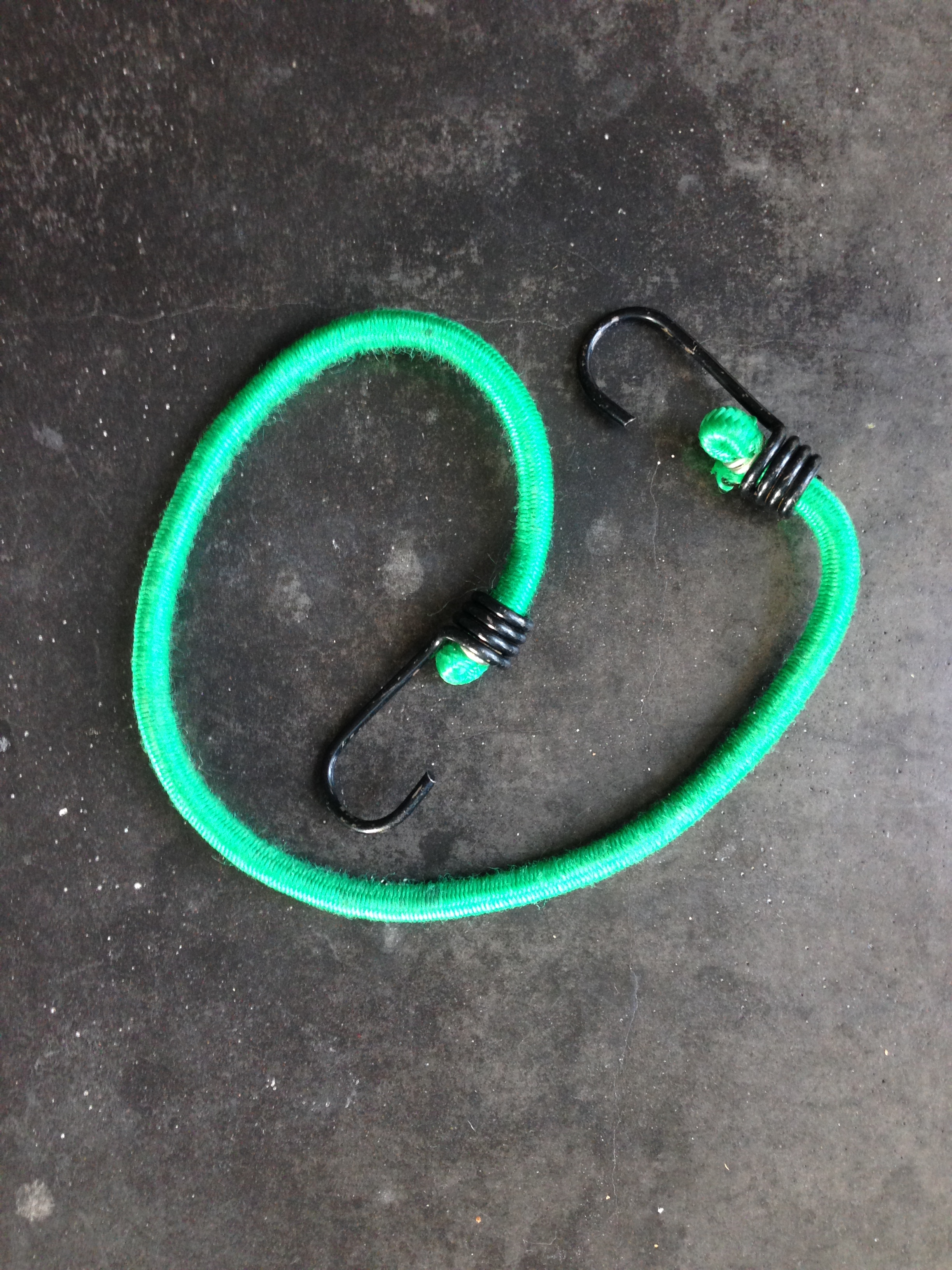 Rubber strap with hook